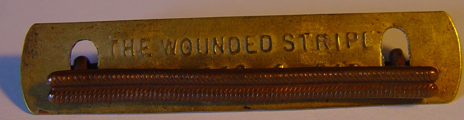 Photo of a World War 1, brass "Wounded Stripe", awarded to a British serviceman wounded in action. The stripe is two inches long. The backing plate, (normally hidden inside the uniform sleeve) reads "THE WOUNDED STRIPE, PROV No. 4 PAT"